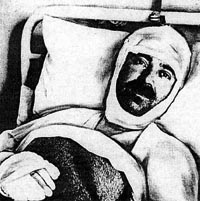 Mile Budak in the hospital after the unsuccessful assassination attempt, 1932